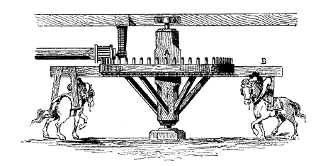 Horse driven transmission.